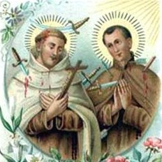 An antique holy card depicting Bl. Denis of the Nativity and Bl. Redemptus of the Cross